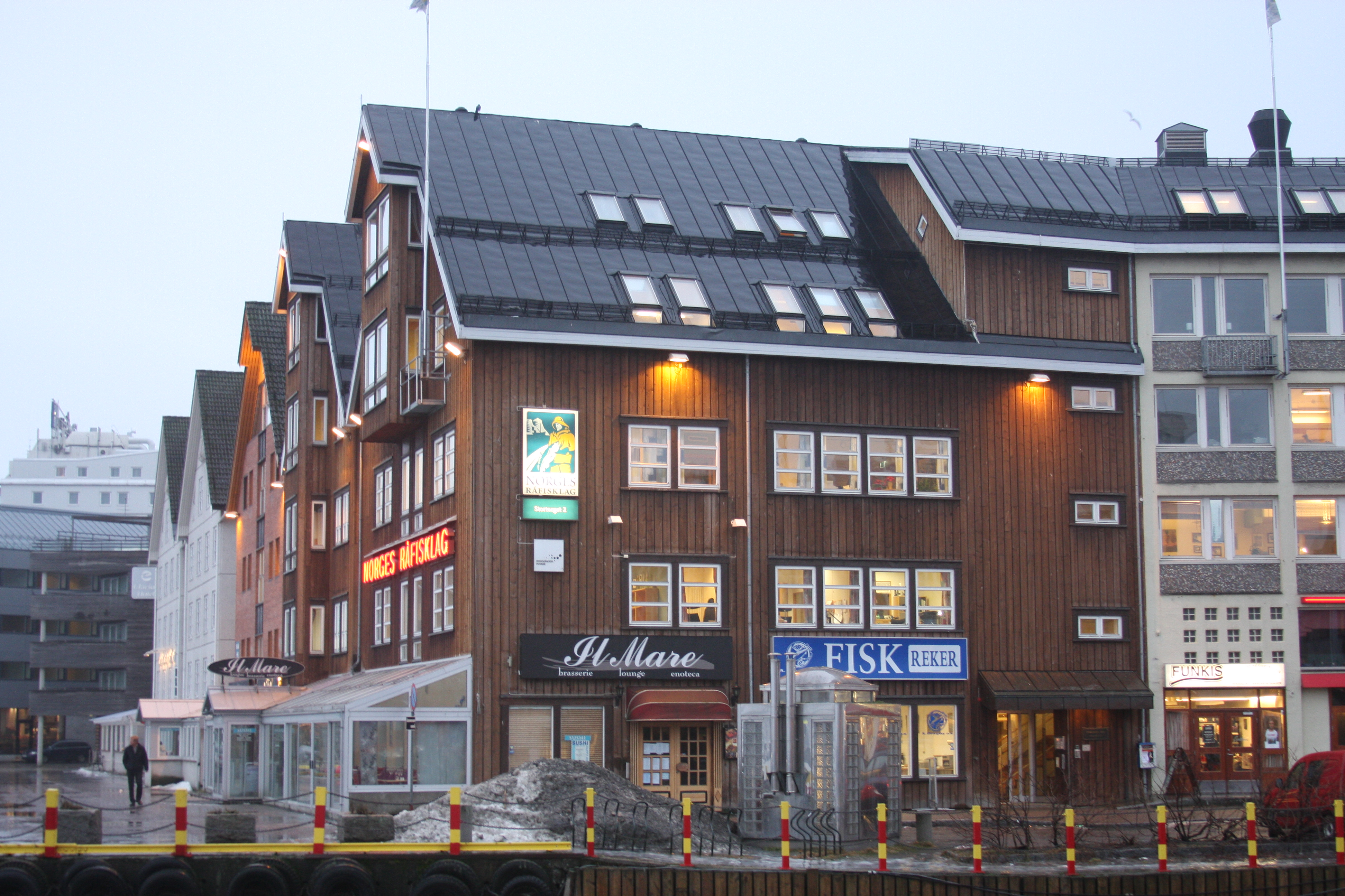 Norges Raafisklag, Tromsö, Norway.